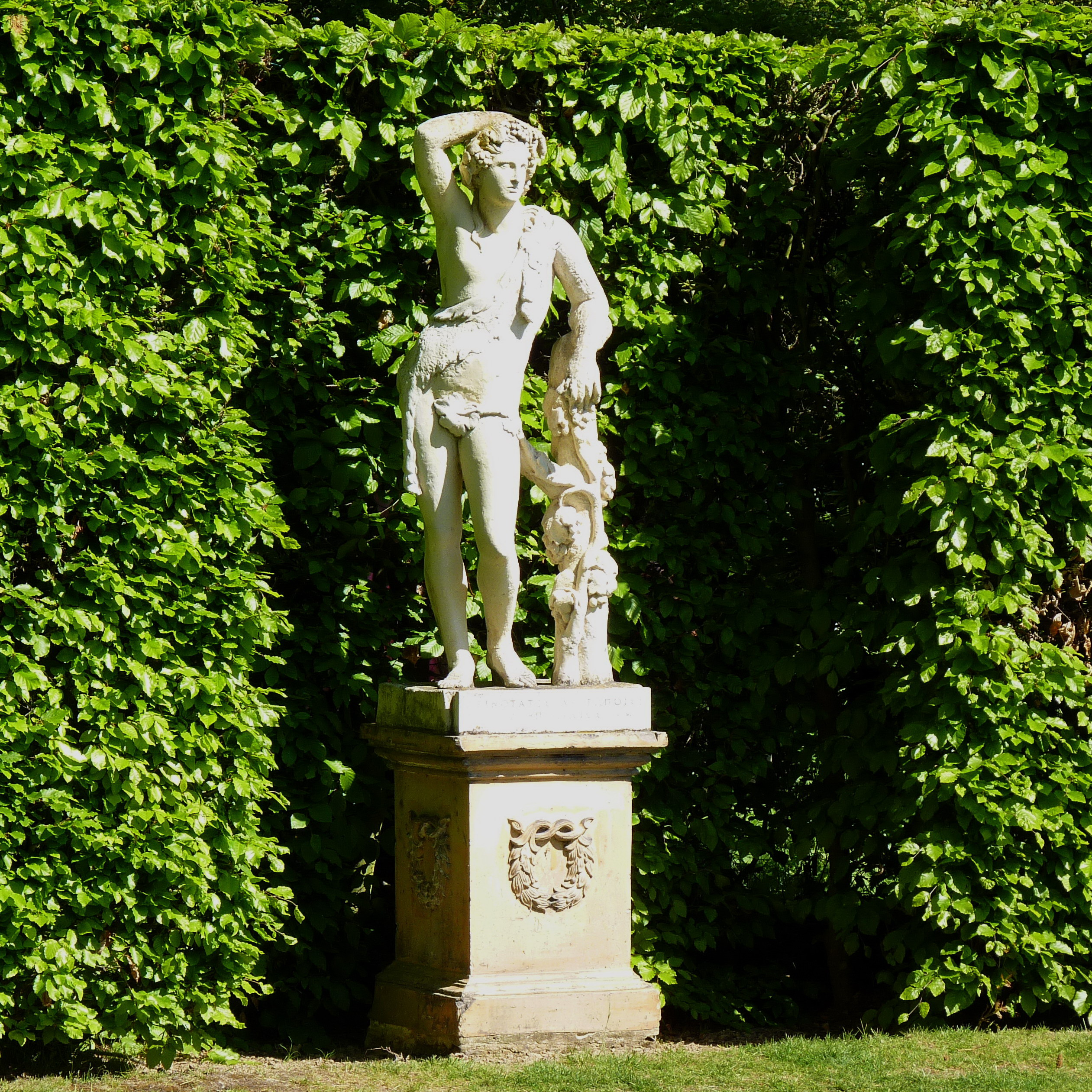 Statue in the gardens of Sissinghurst Castle